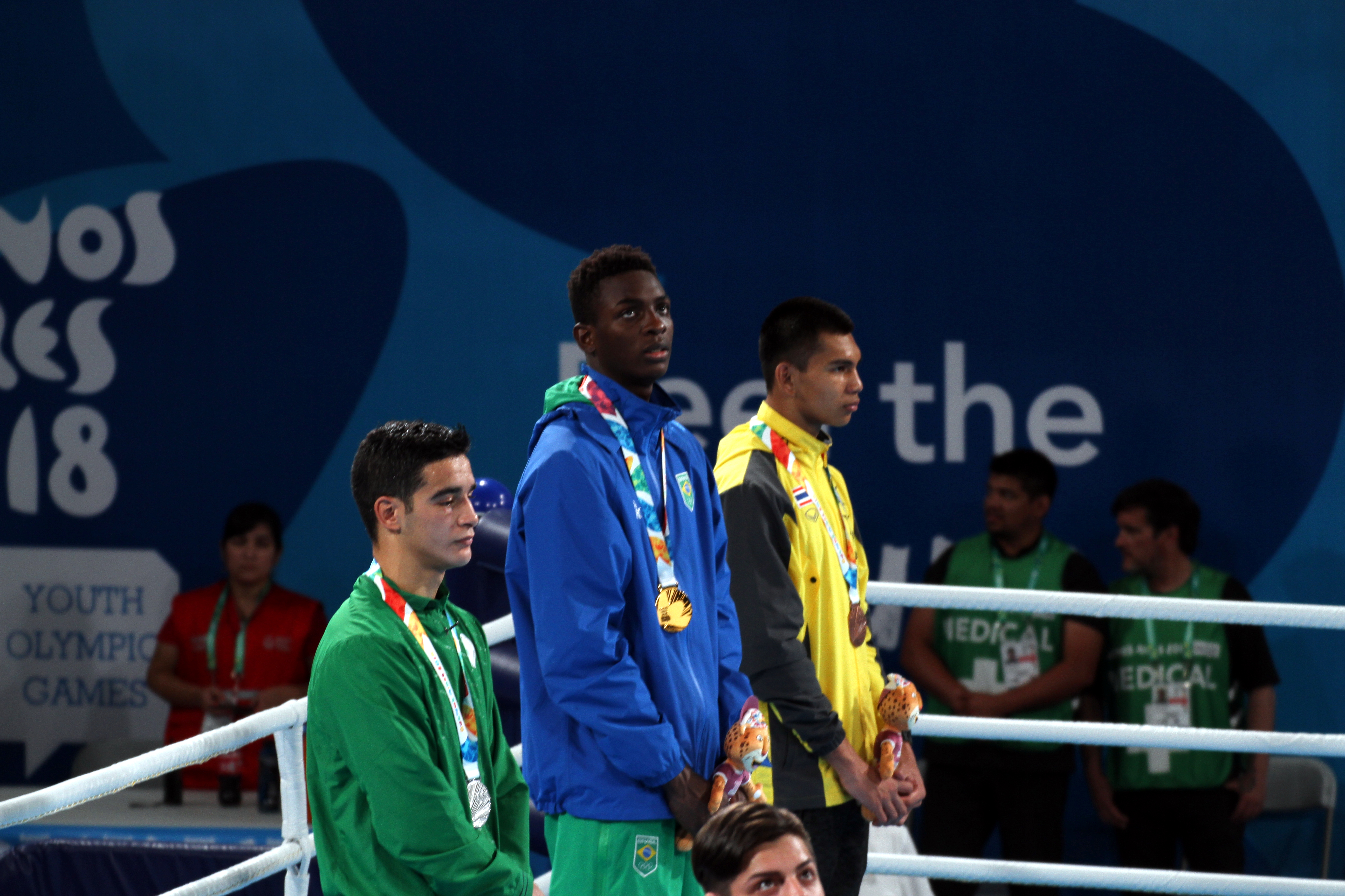 Victory ceremony of the Men's Middle (75kg) boxing tournament of the 2018 Summer Youth Olympics.